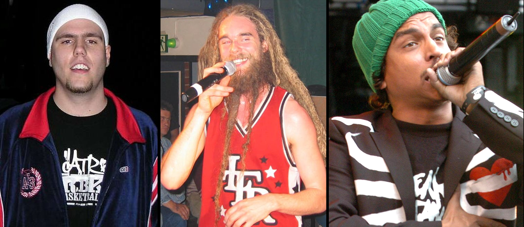 This is a collage of the following images: Image:Org12.portrait.jpg Image:Promoe.crop.jpg Image:Timbuk.crop.jpg Purpose is to serve as a presenting image on Svensk hiphop